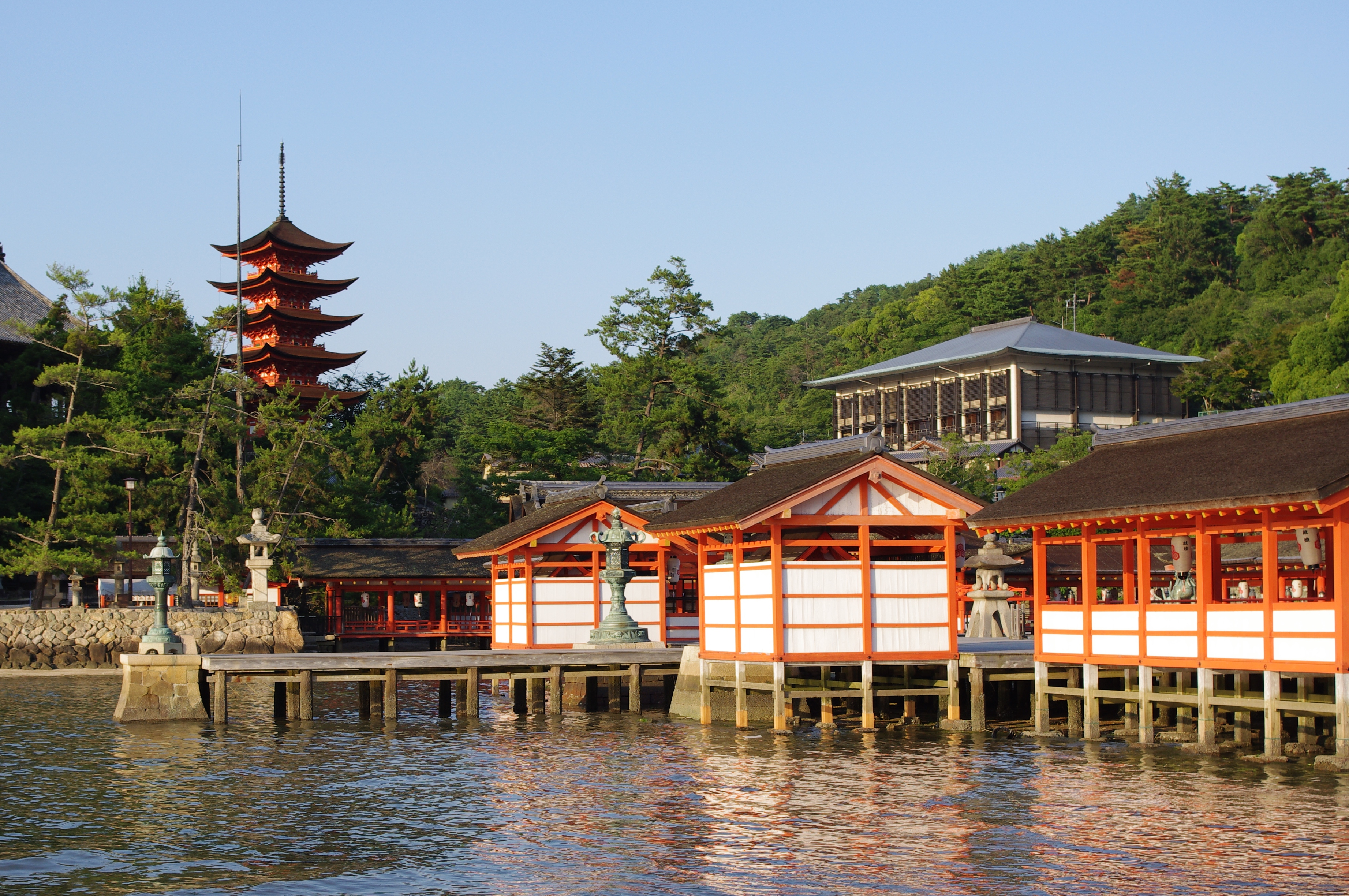 Itsukushima Shrine on Miyajima